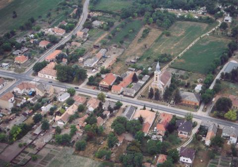 Lepsény, Hungary, aerialphotography